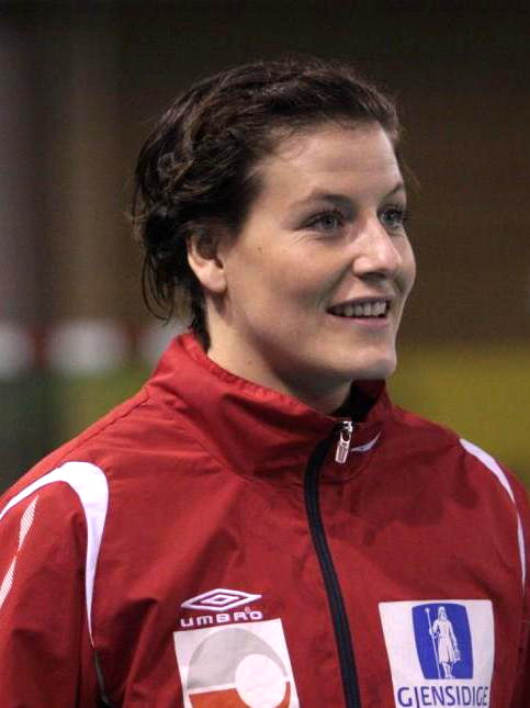 Linn-Kristin Riegelhuth, Norwegian handball player, during warm-up before a friendly match between the national teams of Norway and France in Andrézieux-Bouthéon, France, on 7 March 2009.